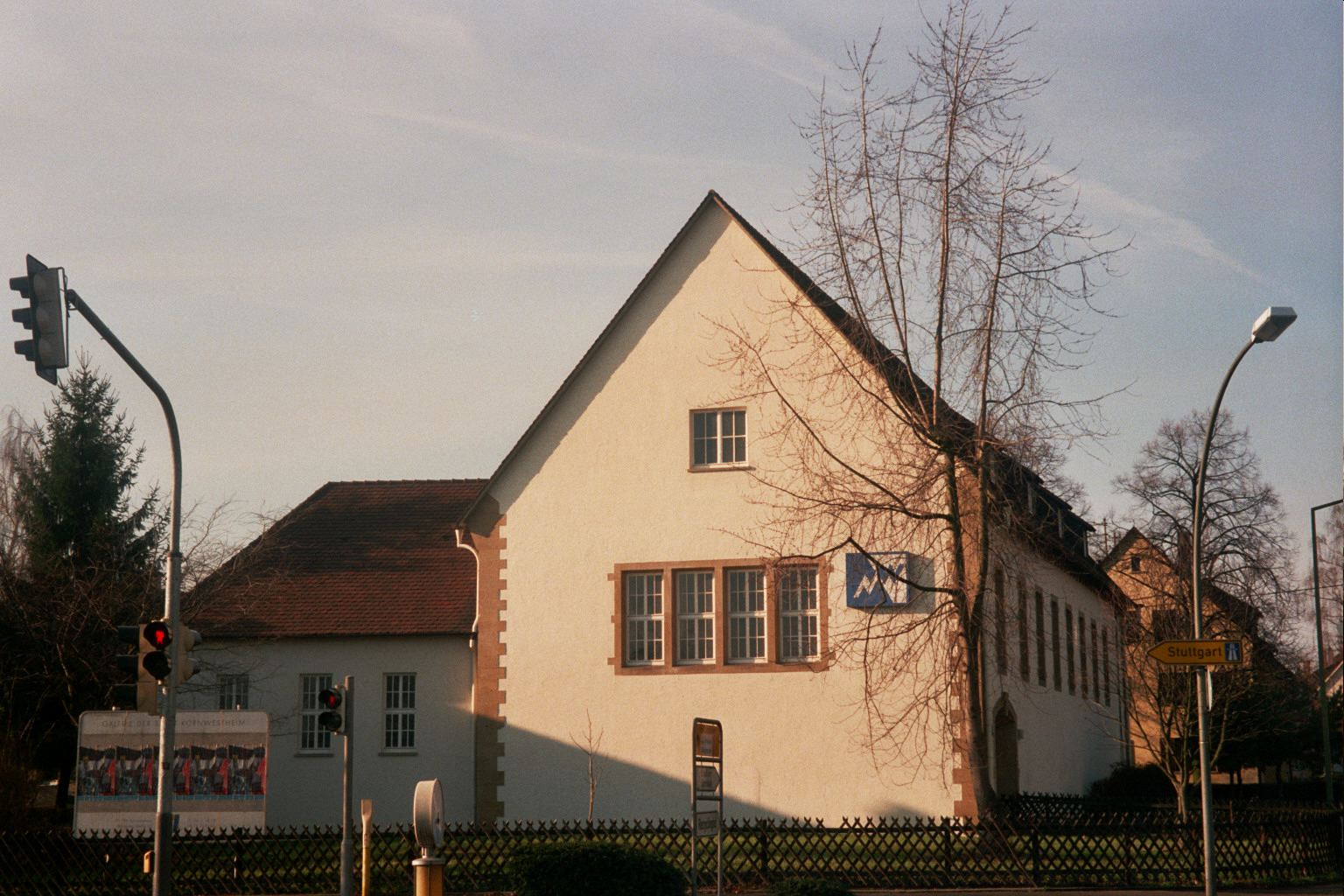 electrical power distributor in Kornwestheim, Germany